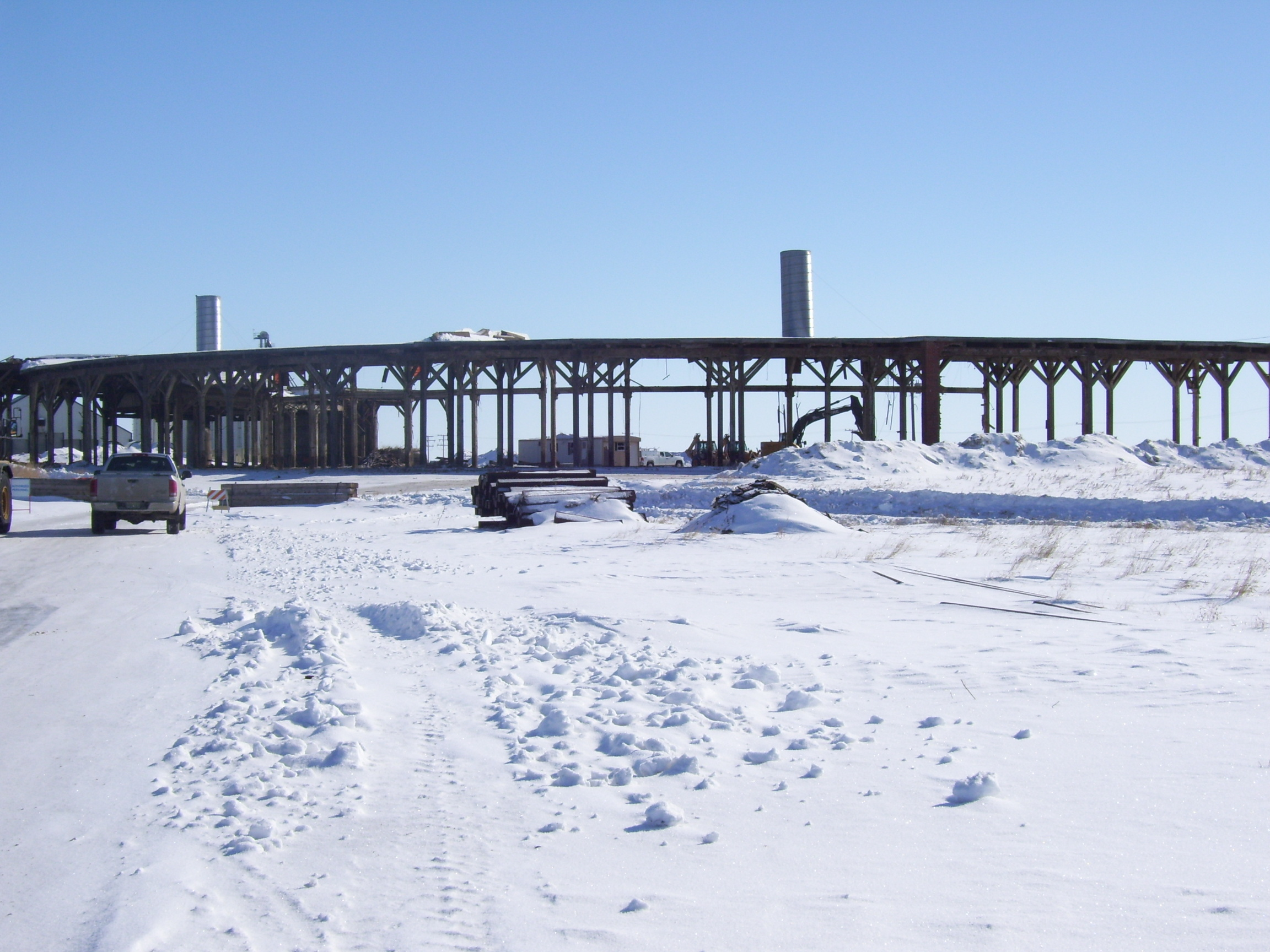 This photograph shows Biggar, Saskatchewan's Roundhouse being demolished.